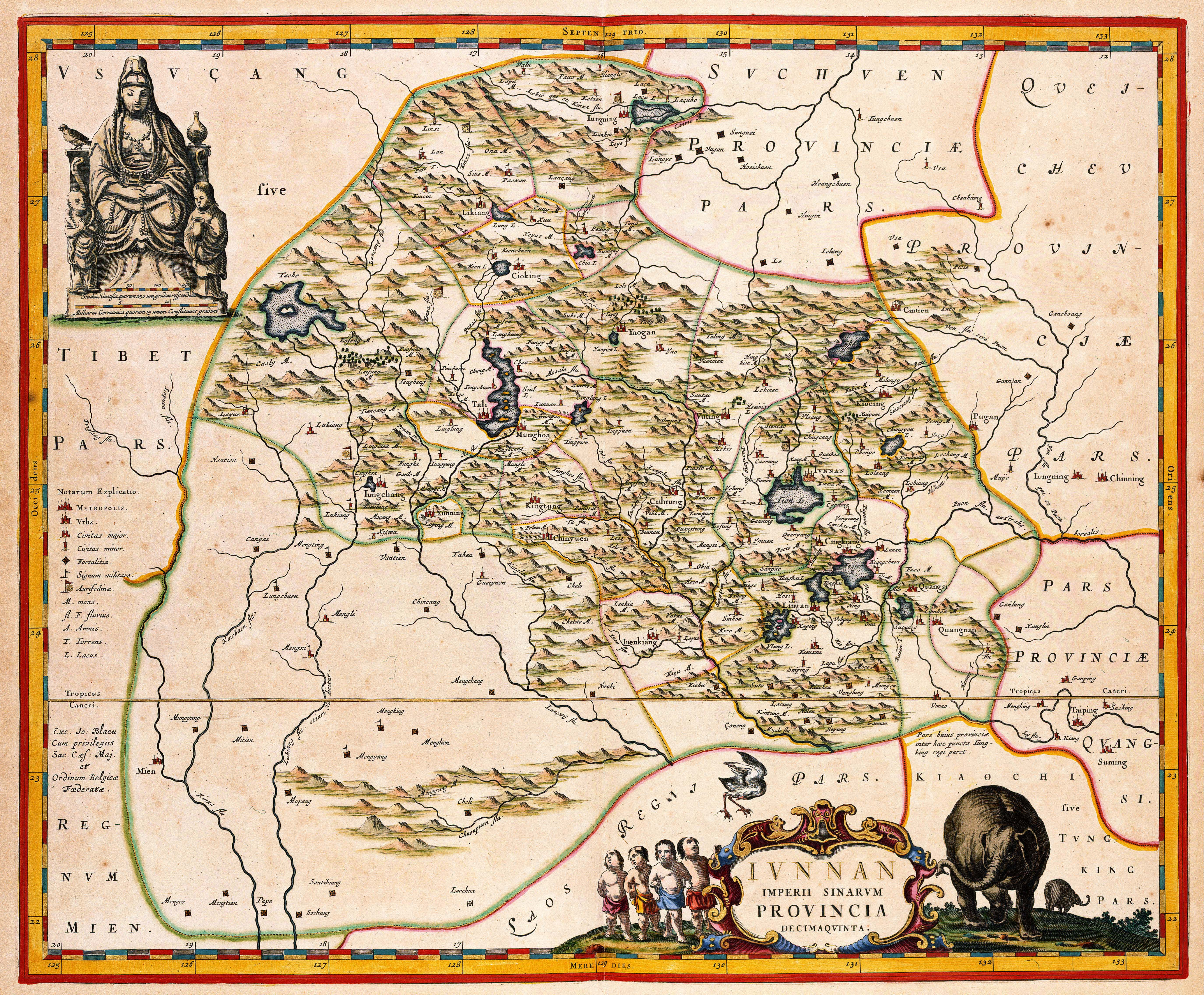 IVNNAN IMPERII SINARVM PROVINCIA DECIMAQVINTA (1655). Map of Yunnan Province, China by Martino Martini.